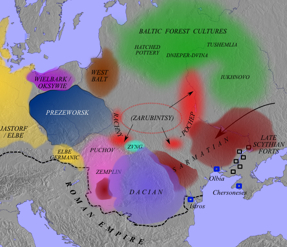 Rome and the Barbarians in Eastern and Central Europe around 100 AD by Shchukin. Created by Slovenski Volk after M B Shchukin, Rome and the Barbarians in Eastern and Central Europe. 1st century BC - 1st century AD. Illustration 42, in vol 2.